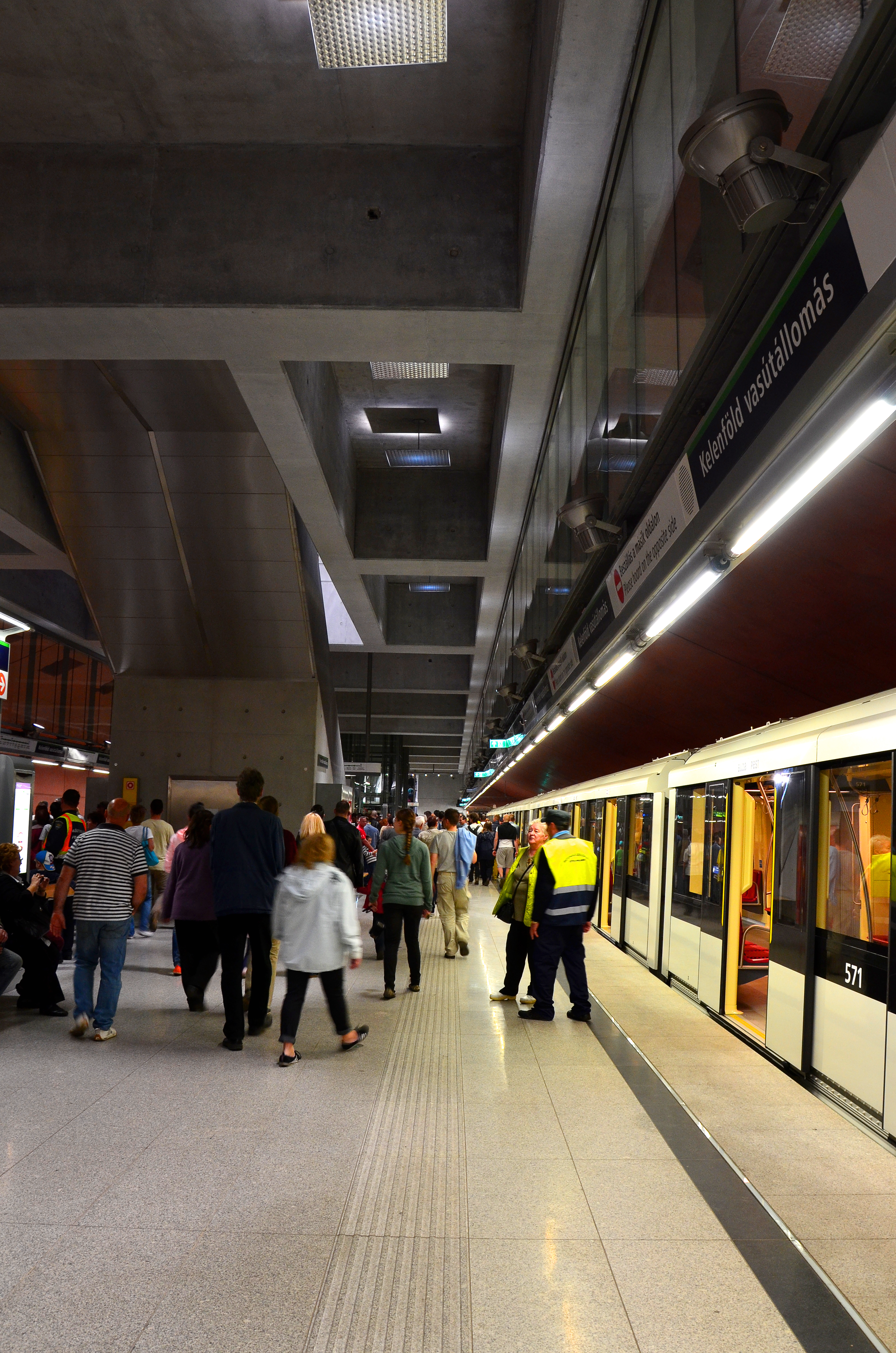 Line 4 (Budapest Metro), Kelenföld vasútállomás station.